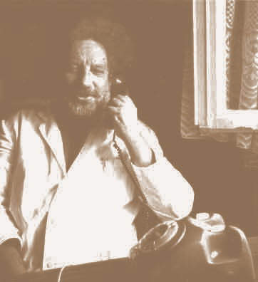 Dr Jovan Rašković